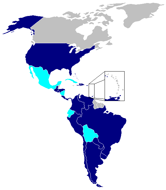 Rio pact members